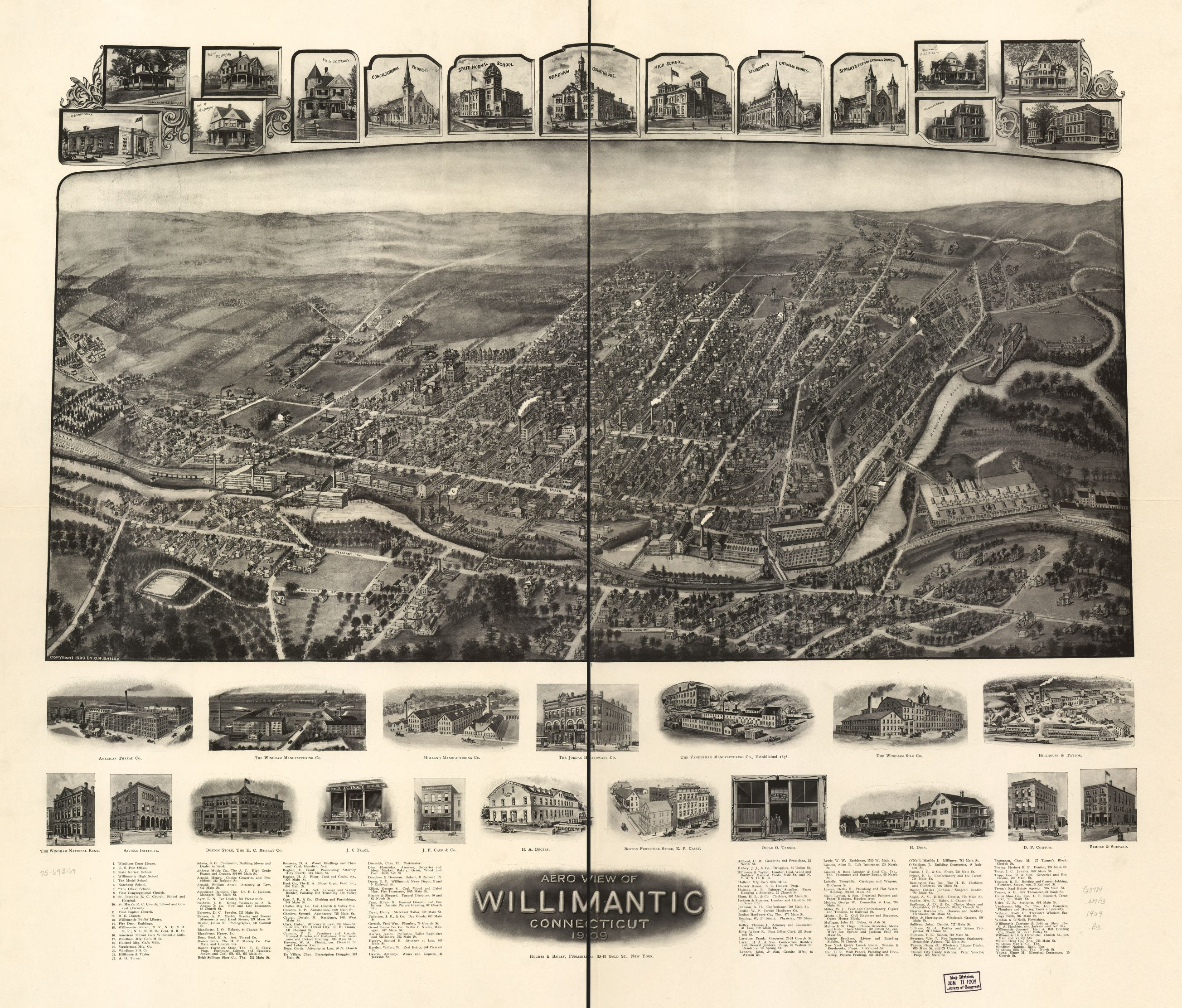 A aero view map of Willimantic, Connecticut in 1909